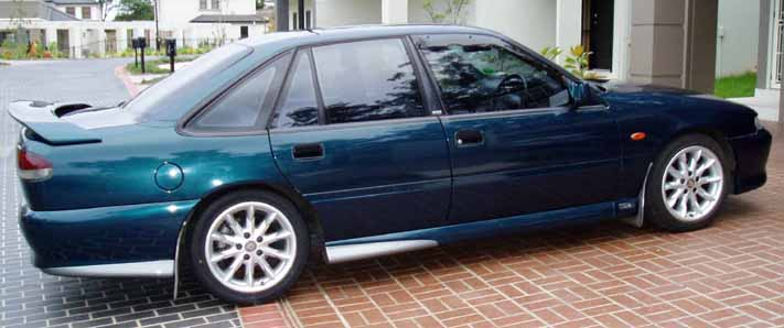 1996 HSV Senator (VS).